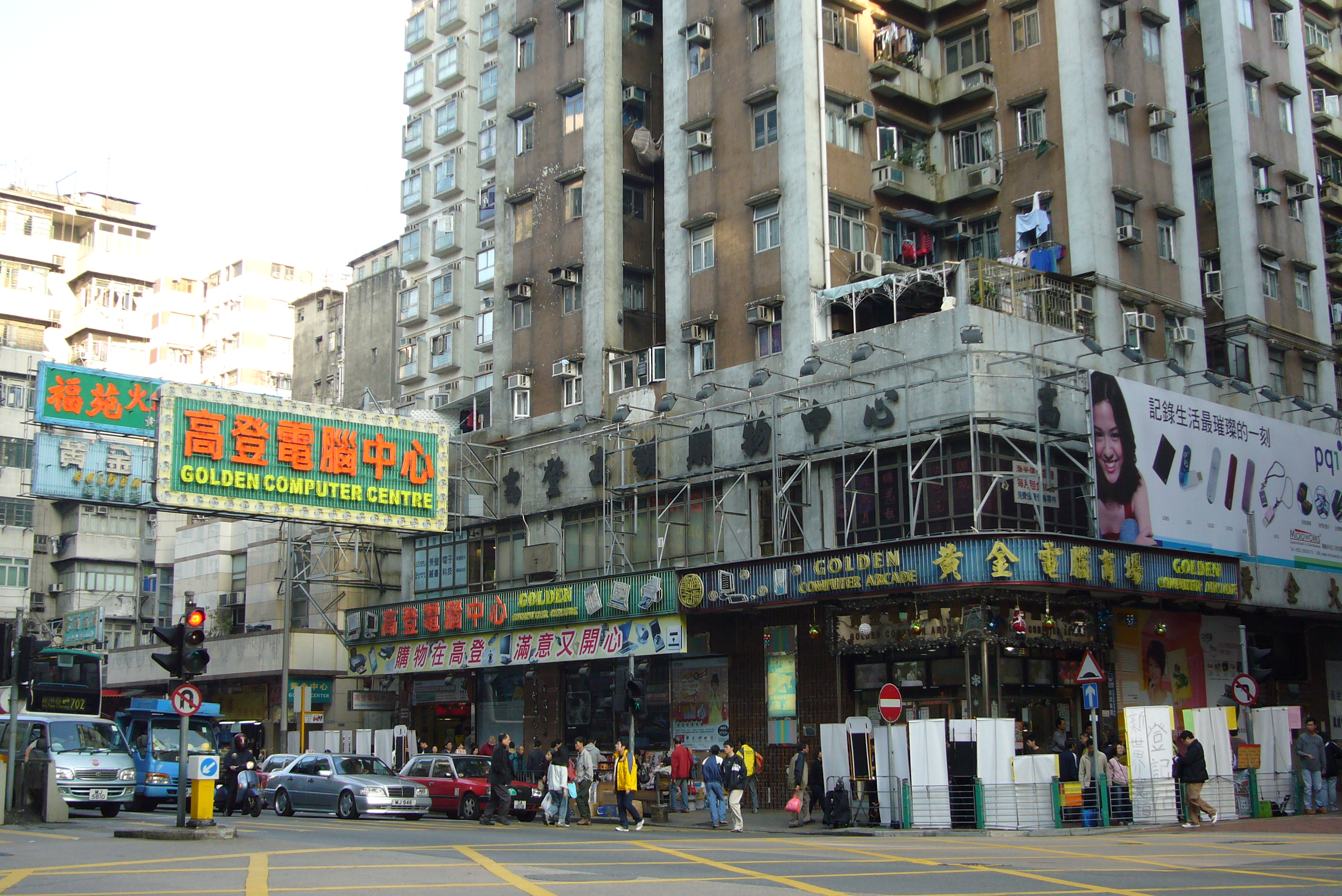 Golden Computer Arcade